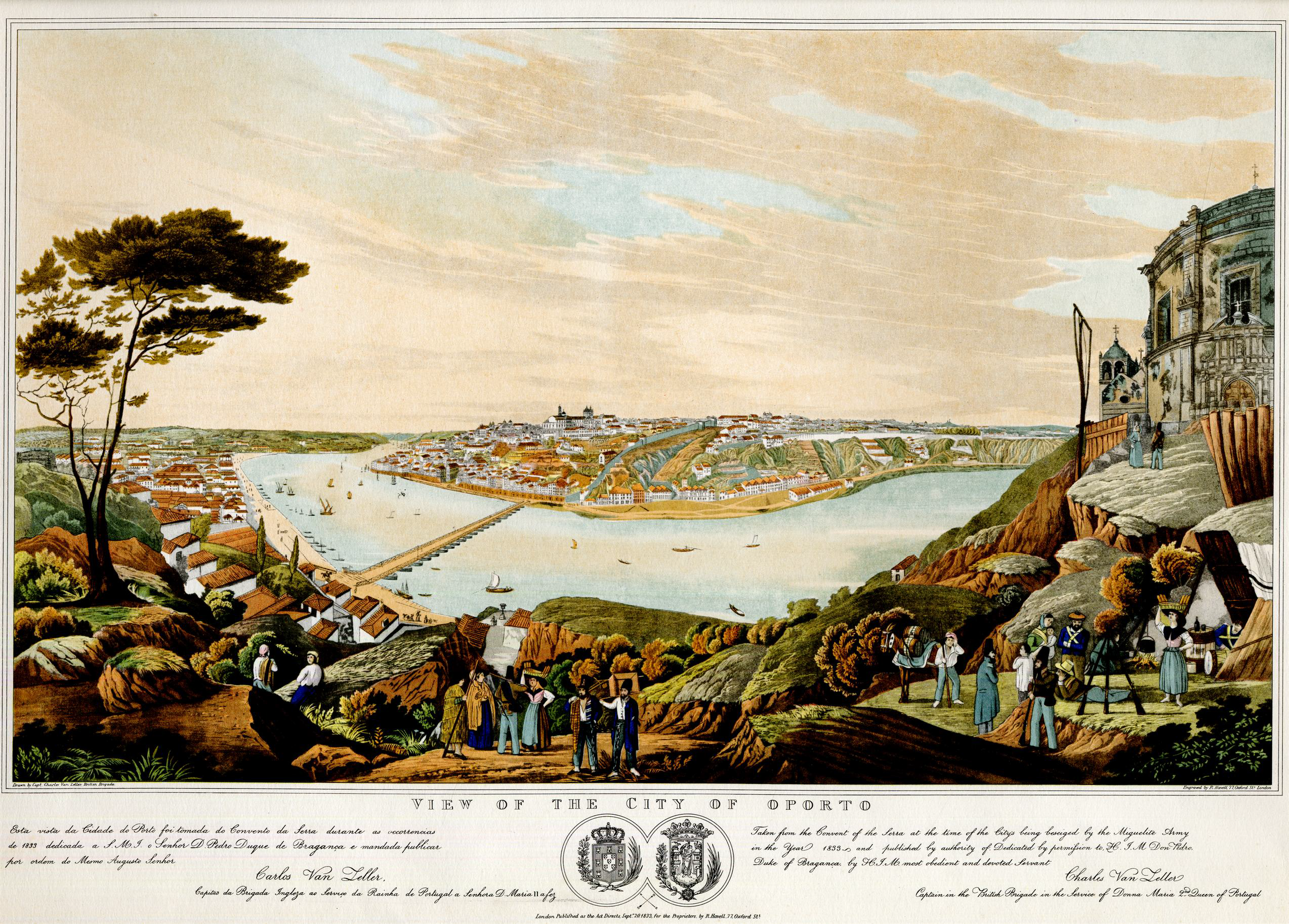 Reproduction of an engraving published in 1833, and dedicated to Peter, Duke of Bragança, showing the slope of the Serra do Pilar (including military people and townsfolk), the neighbouring town of Vila Nova de Gaia, the Douro River, during the Siege of Oporto.